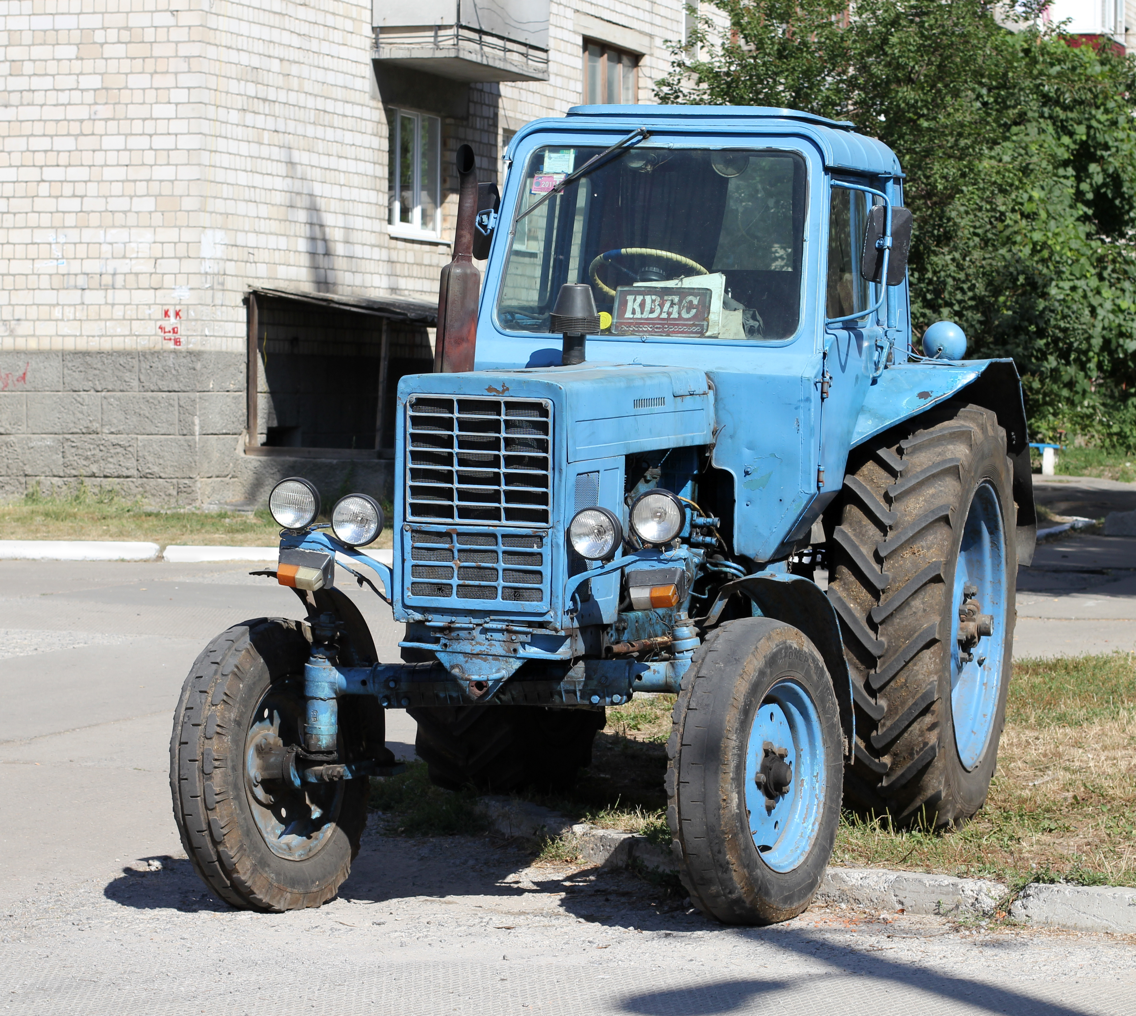 MTZ-80 tractor. Ukraine, Vinnitsa.